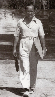 Cesare Breveglieri, Italian painter and poet.